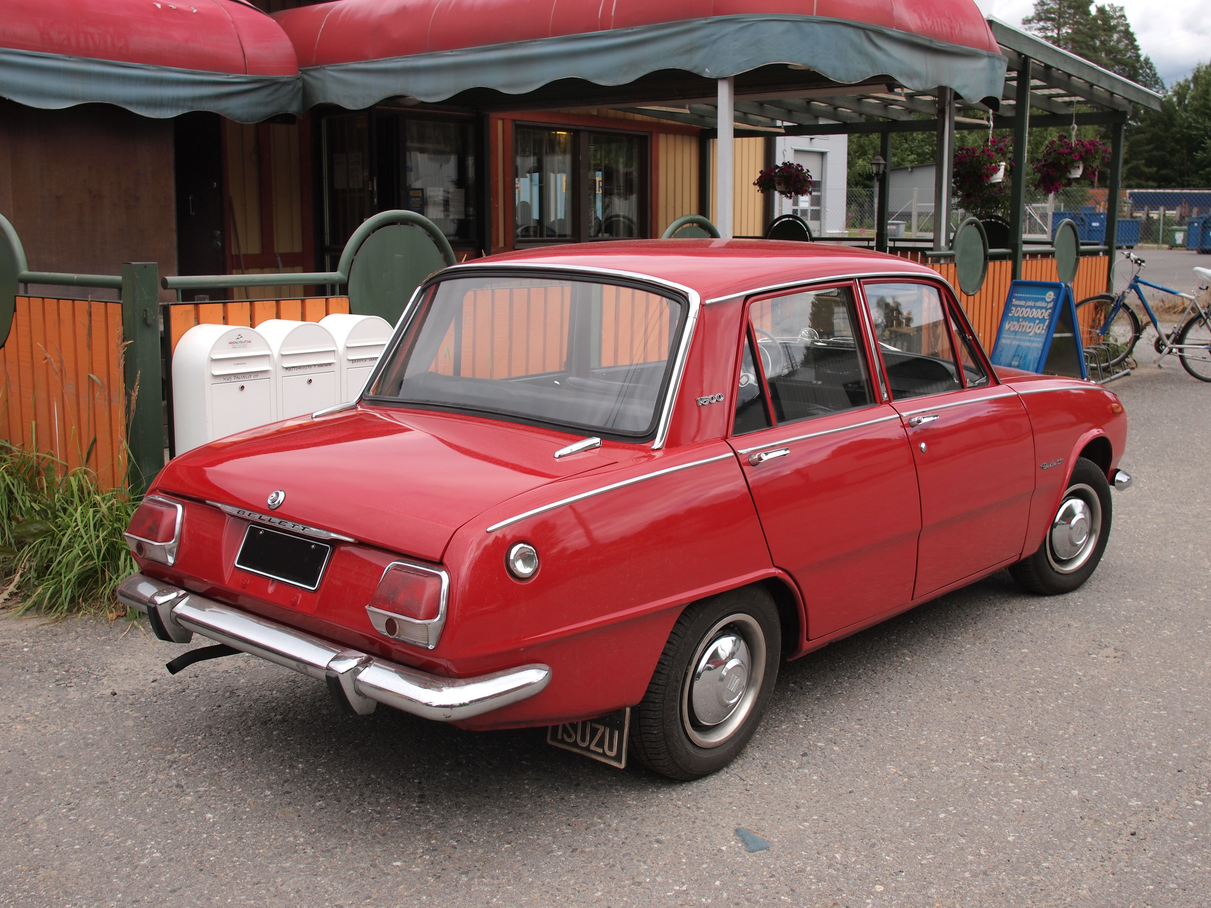 Rear section of a red Isuzu Bellett.